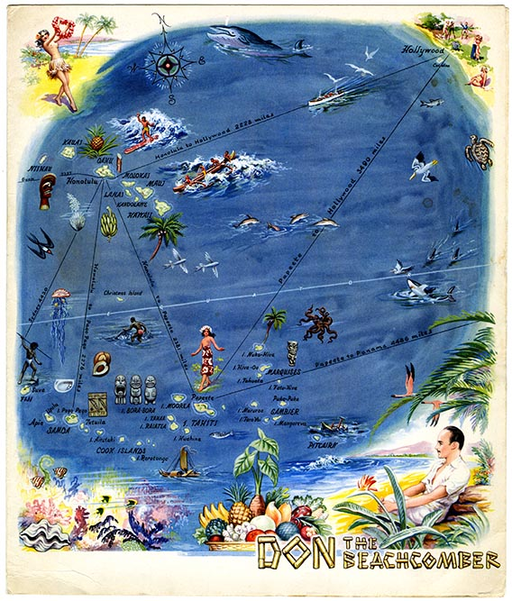 Repository: California Historical Society Digital object ID: CHS2014.1476 [a] Call number: MENU COL Collection: California menu collection Date: 1943 Preferred citation: Menu, Don the Beachcomber, Hollywood [cover], California menu collection, courtesy, California Historical Society, CHS2014.1476 [a].jpg. Online finding aid